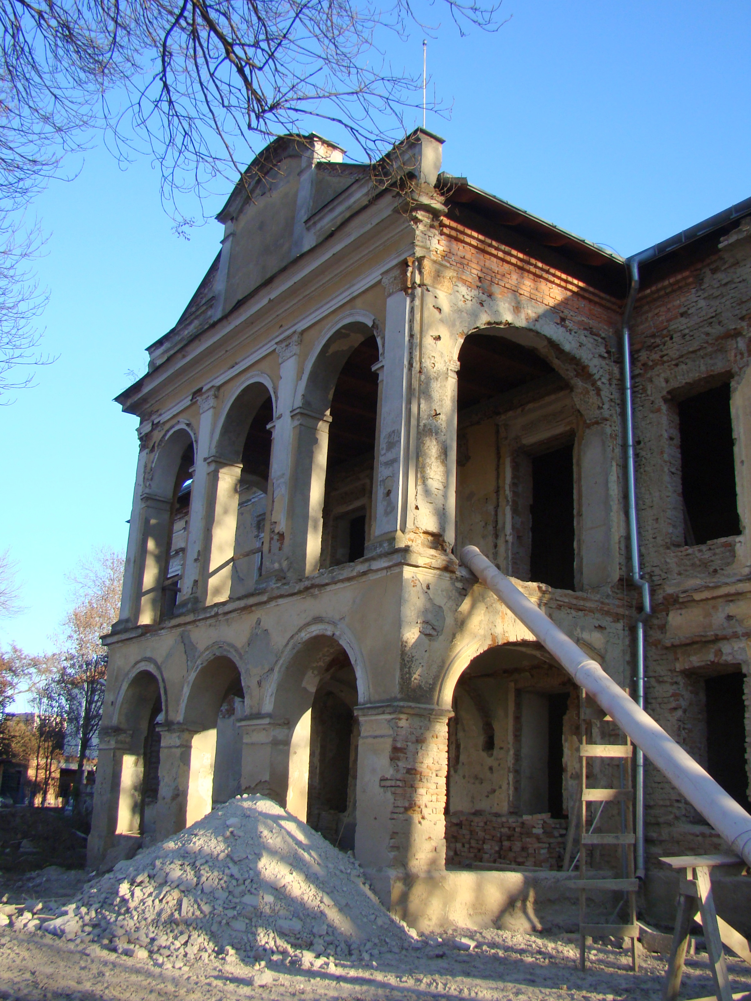 Mariaffi Castle in Sângeorgiu de Mureș, Mureș county, Romania